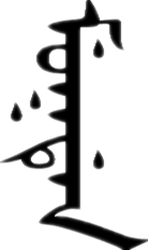 "Mukden" written in Manchu. (ᠮᡠᡴ᠋ᡩᡝ᠋ᠨ)